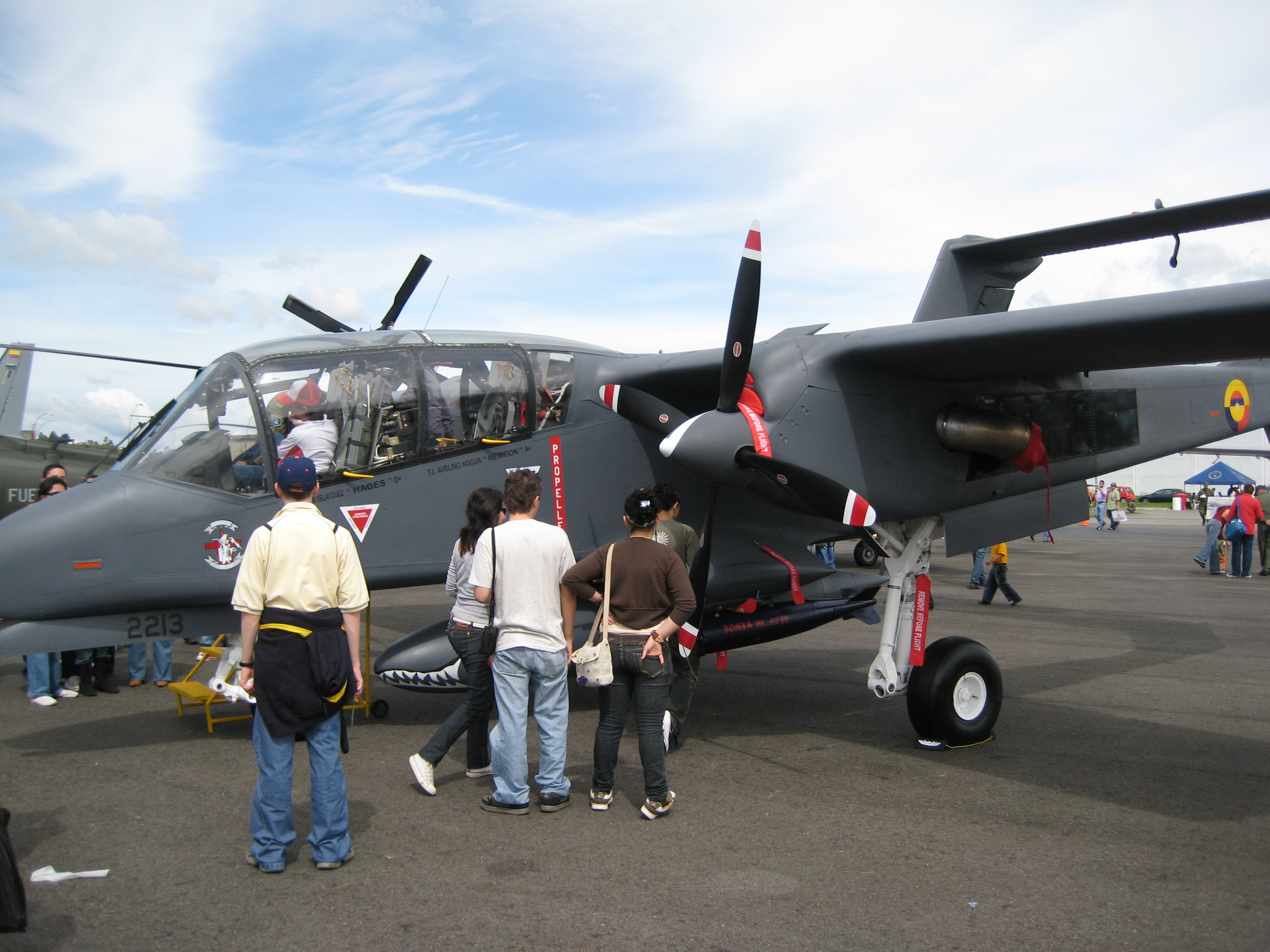 OV-10 during F-Air 2008